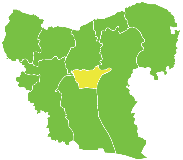 Dayr Hafir District, Syrian governorate of Aleppo Governorate.